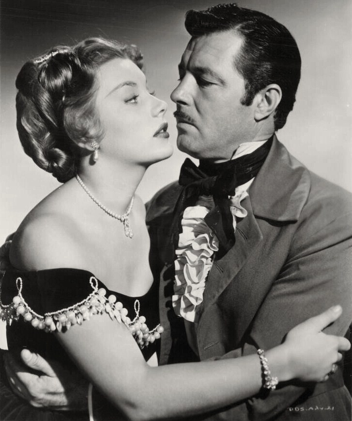 Barbara Payton & James Craig in Drums in the Deep South - publicity still (cropped)